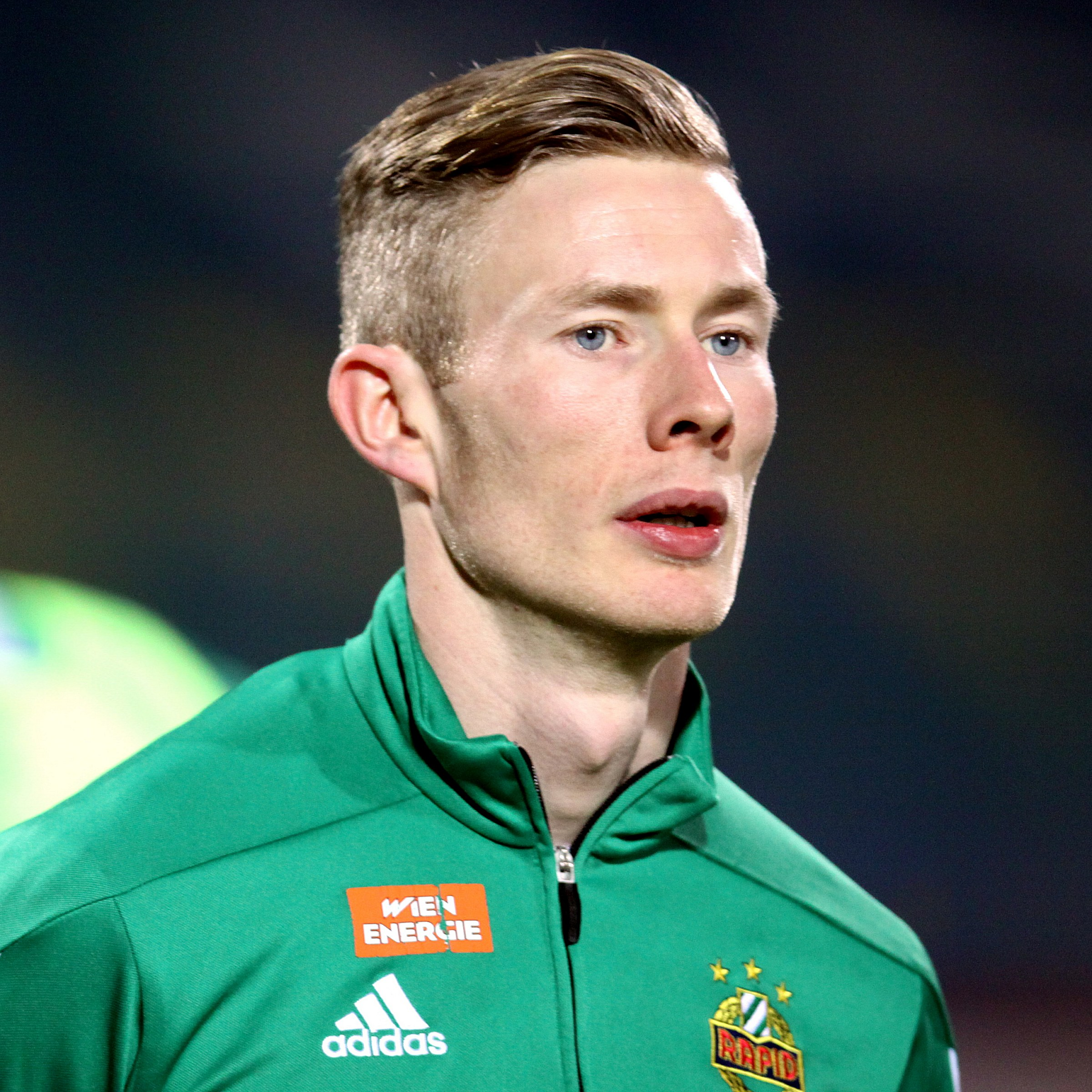 Match of the Austrian Football Bundesliga – FC Admira Wacker Mödling (red shirts) vs. SK Rapid Wien (white shirts) 2-1 (0-1) on 2015-12-02 in Bundesstadion Sudstadt – The photo shows Florian Kainz (SK Rapid Wien).